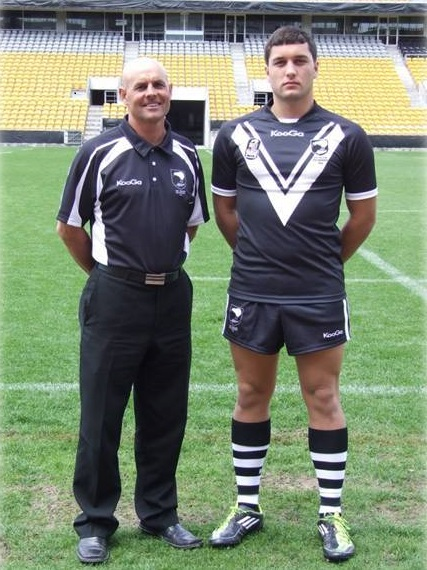 Kadince with the CEO of Northland Rugby League